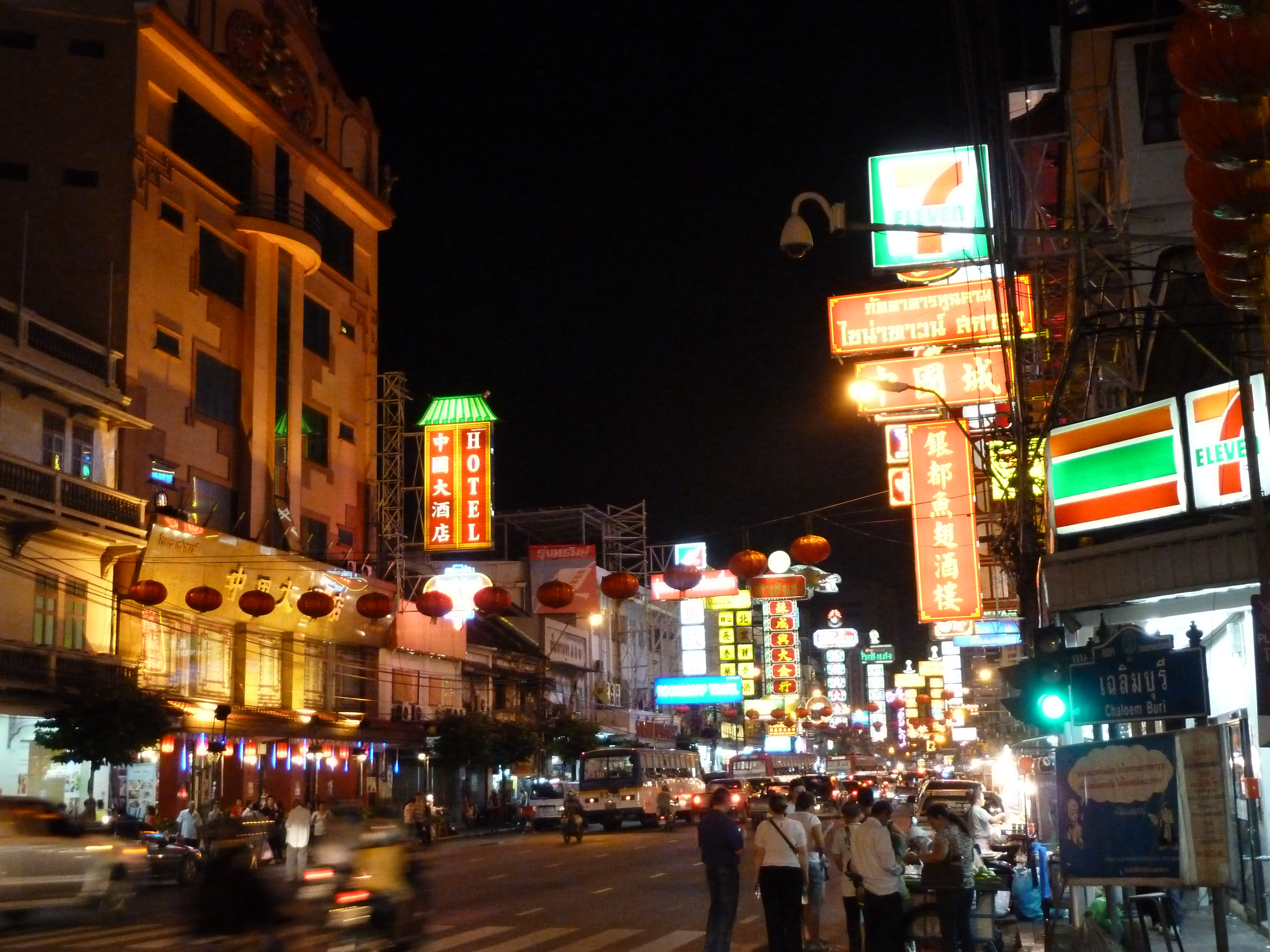 Night time, Bangkok, Thailand